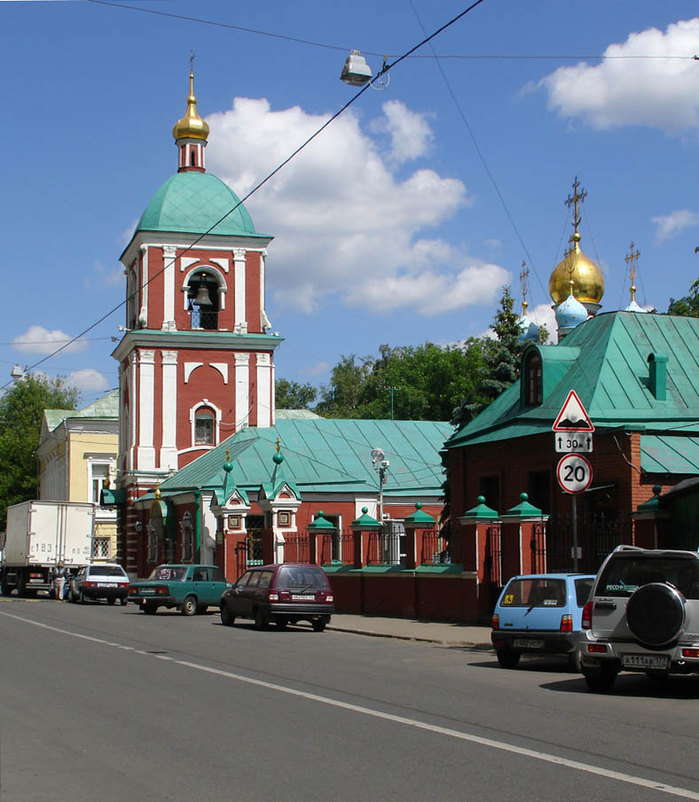 Church of Dormition, 1654 (belltower 1790), Goncharnaya Street in Moscow, Russia